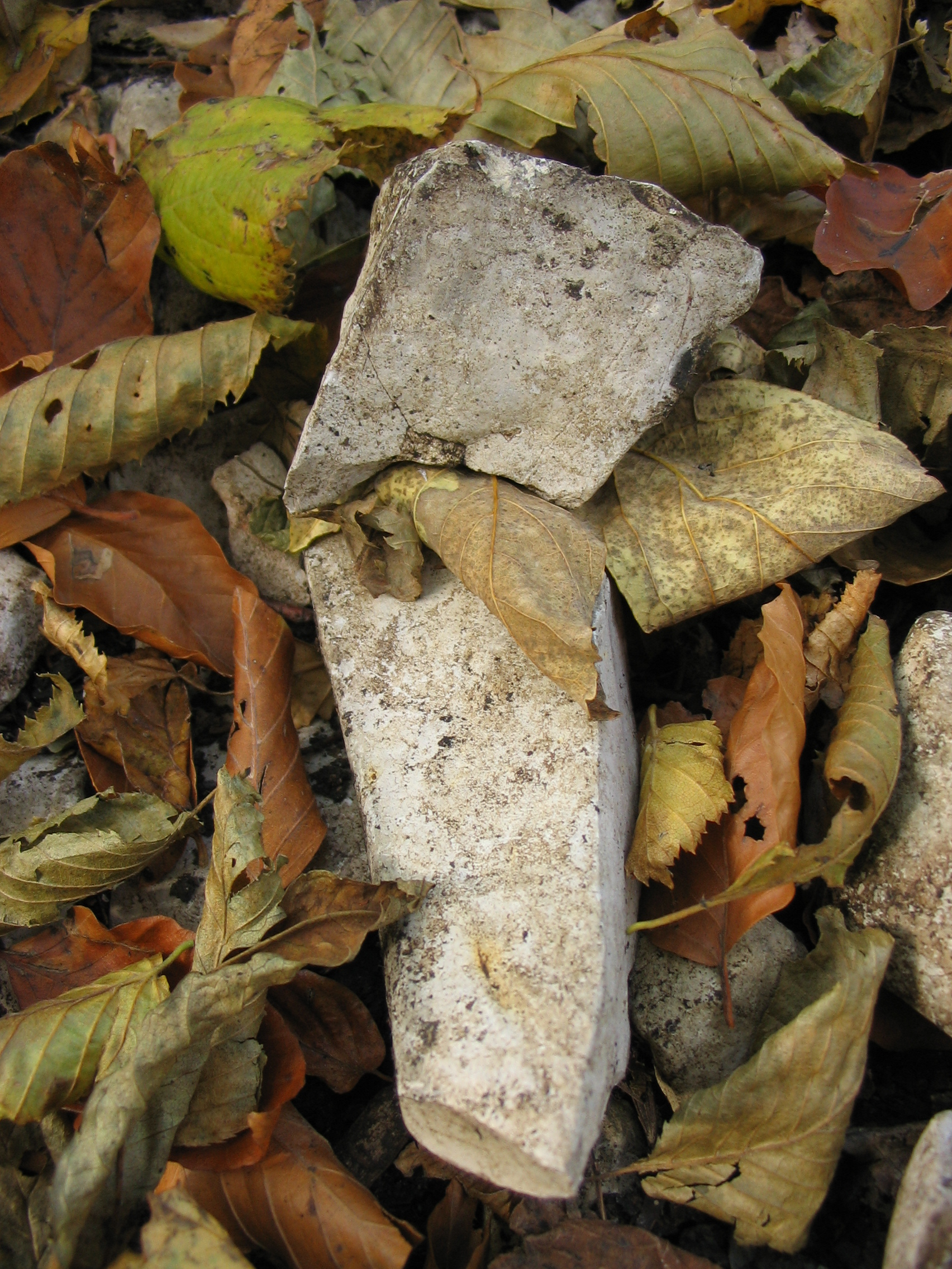 Typical limestone of Swabian Alb.